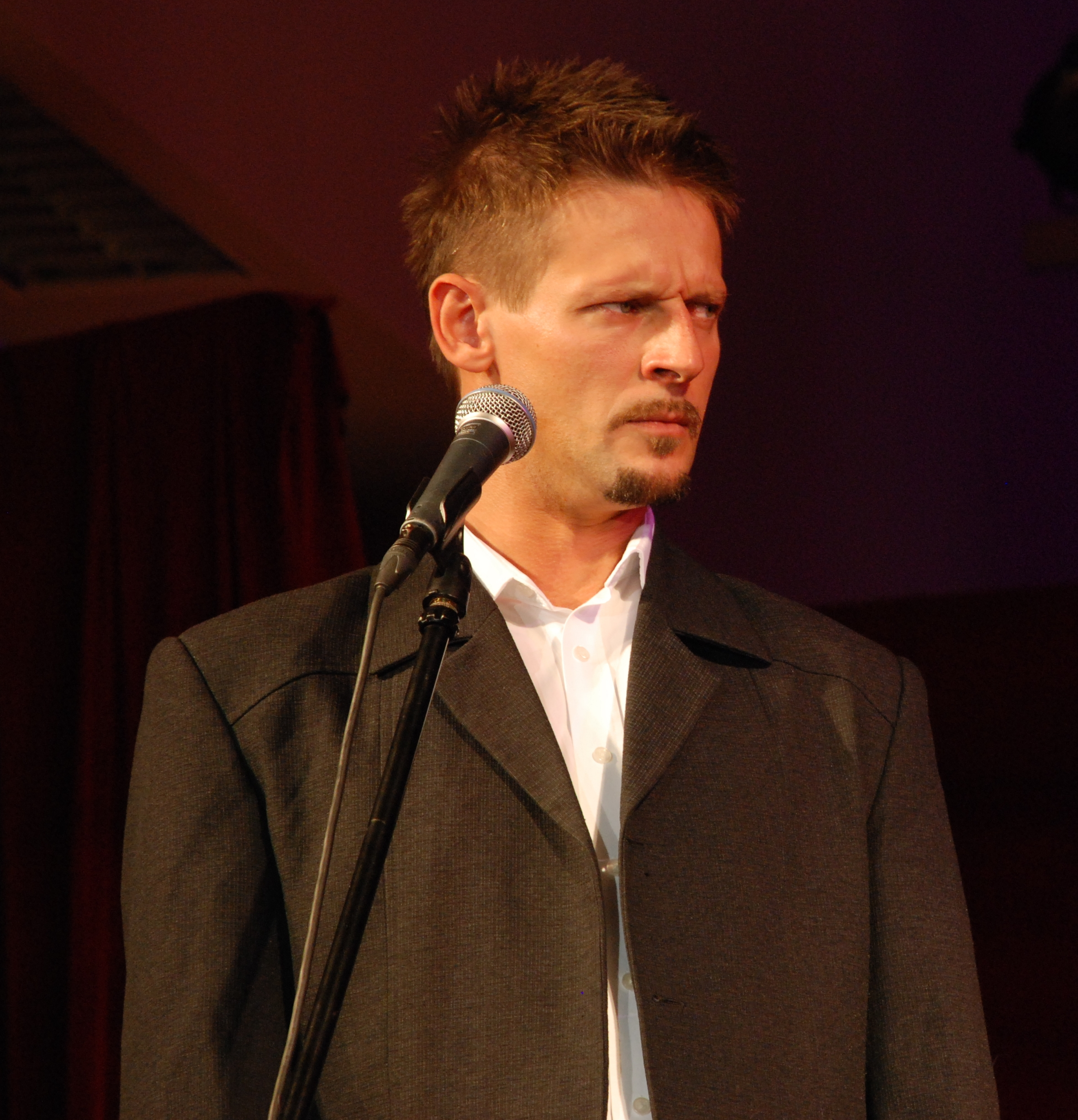 Michał Wójcik of Kabaret Ani Mru-Mru during a performance on the fourth day of the 2007 Festival of Cabaret in Zielona Góra.